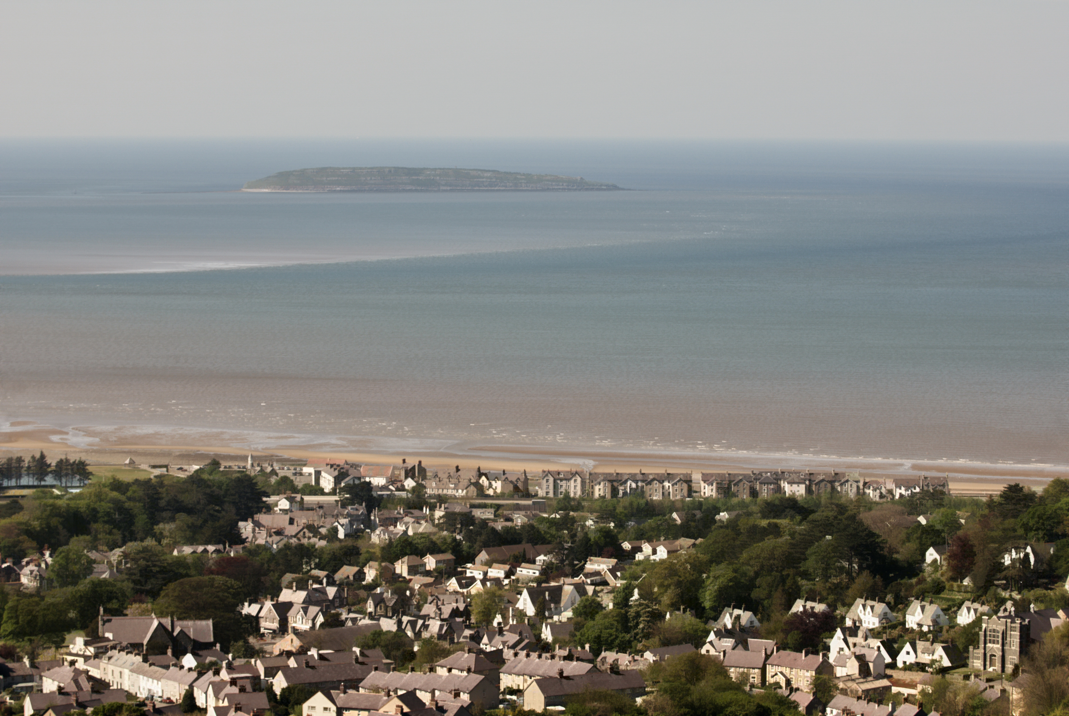 Llanfairfechan, North Wales with Puffin Island in the distance as seen from The North Welsh Path.